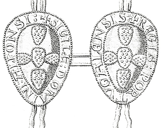 Seal of Afonso II of Portugal